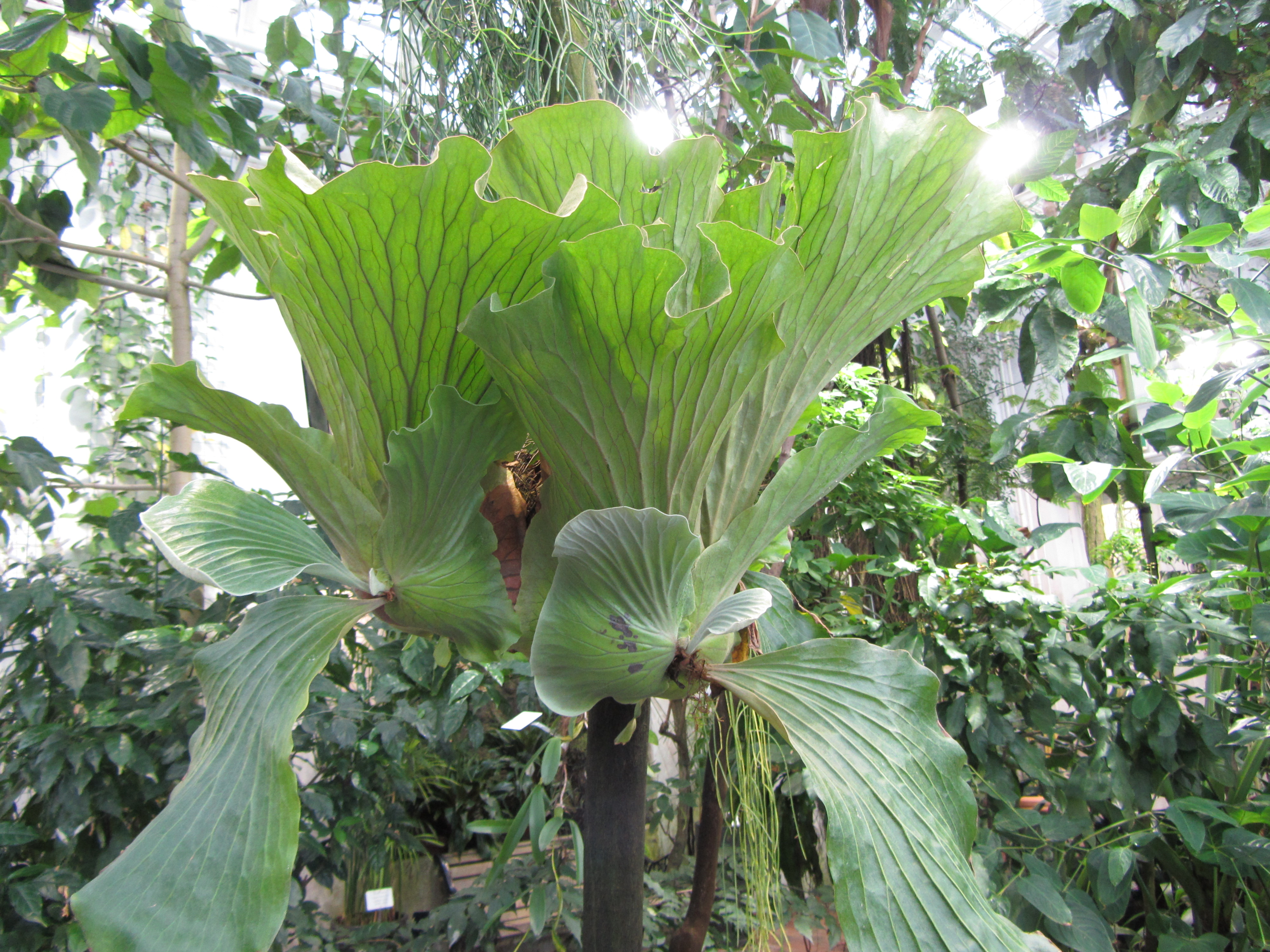 Platycerium elephantotis in the Glasshouses of Kaisaniemi Botanical Garden in Helsinki, Finland